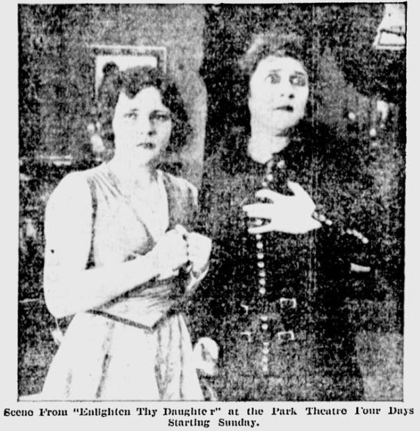 Still from 1917 silent film, Enlighten My Daughter, with Katharine Kaelred (right) and Zena Keefe (left)